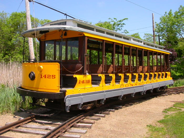 Connecticut Company 15-bench open car #1425, now preserved at the Shore Line Trolley Museum. Cars like this were famous for carrying huge crowds to the Yale Bowl games in the 1940's.